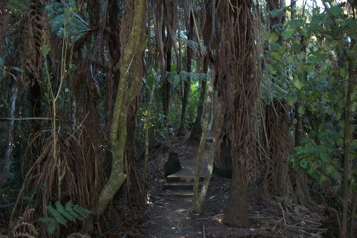 Nature walk outside Clevedon, New Zealand. It's about a 45 minute climb to the top of a hill which overlooks Auckland, and one can see both the Hauraki Gulf on the east and the Pacific Ocean on the west from the top. Sometimes huge trees and vines hang. The path is made of logs (like stairs) with gravel. This picture is public domain from An American's perspective on New Zealand (see notice at top of article). Questions? Ask here.